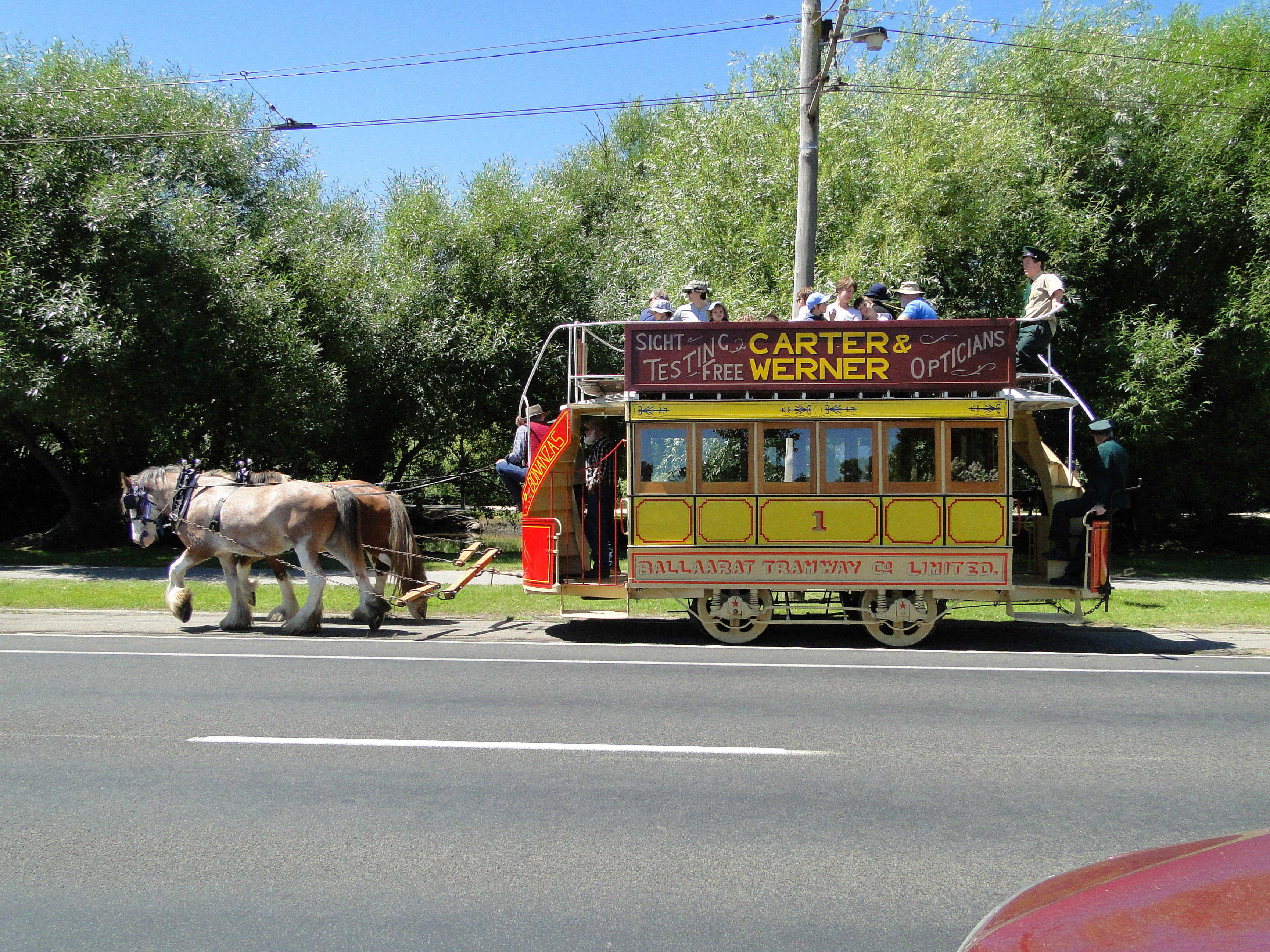 Ballarat horse tram in the Botanical Gardens, Ballarat, Victoria, Australia. Photo taken on the 125th anniversary of the opening of the tramway.